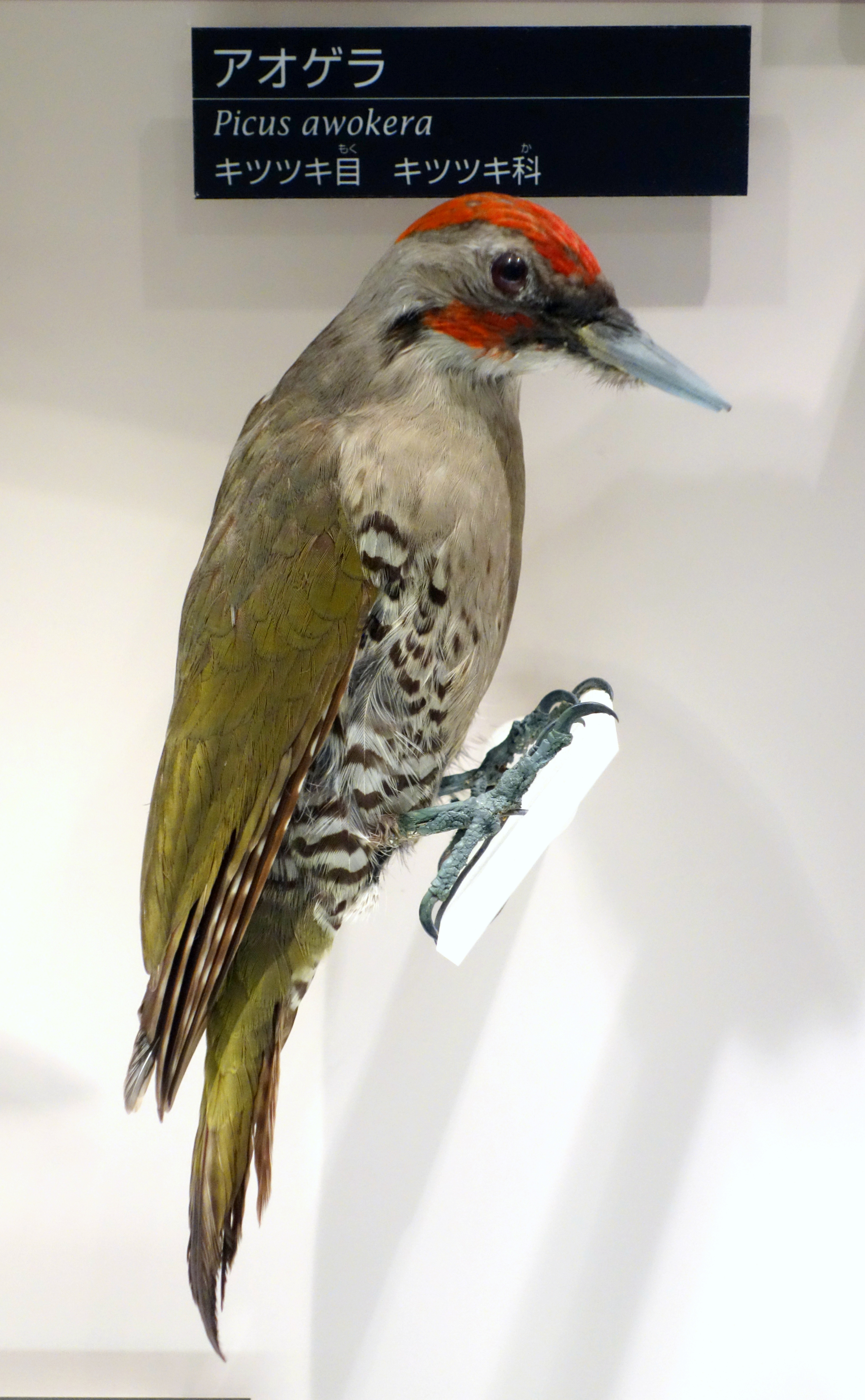 Exhibit in the National Museum of Nature and Science, Tokyo, Japan.